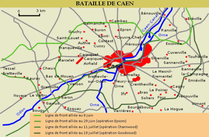 Map, showing the Battle for Caen with French caption and title